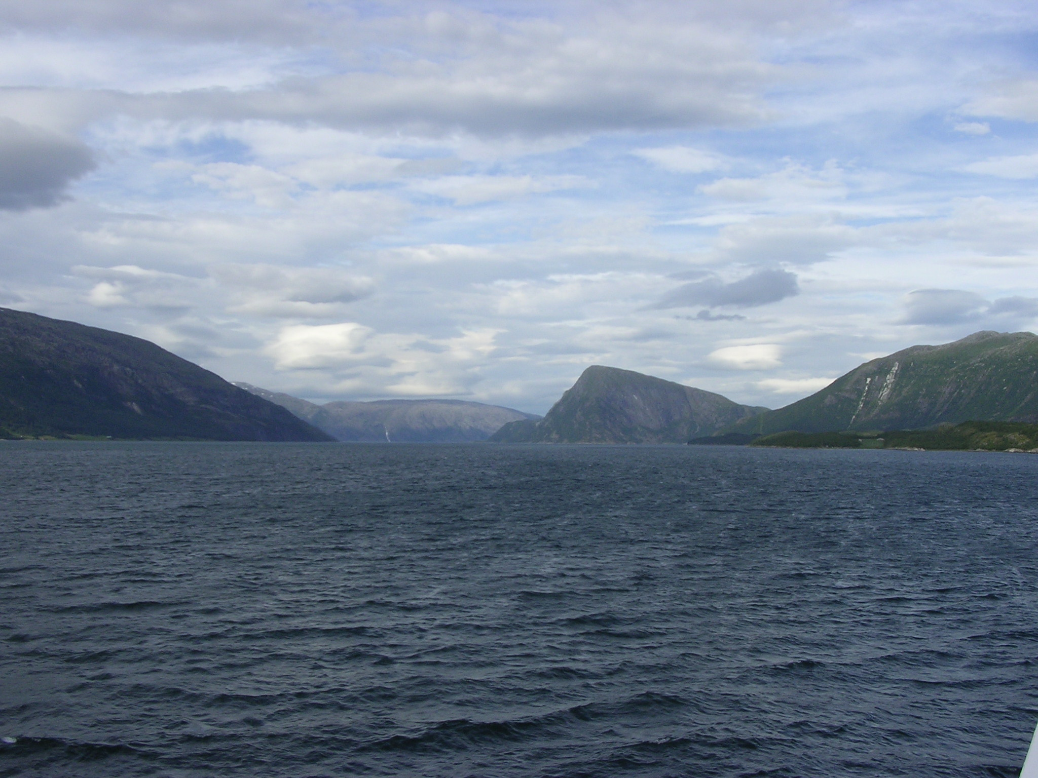 Ranfjorden in Nordland, Norway